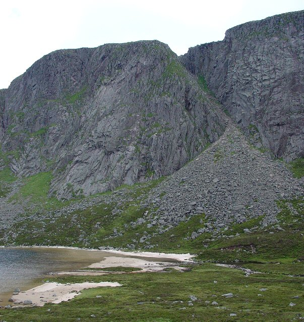 Central Gully, Creag an Dubh Loch. Next to the sandy beach of the NW end of Dubh Loch